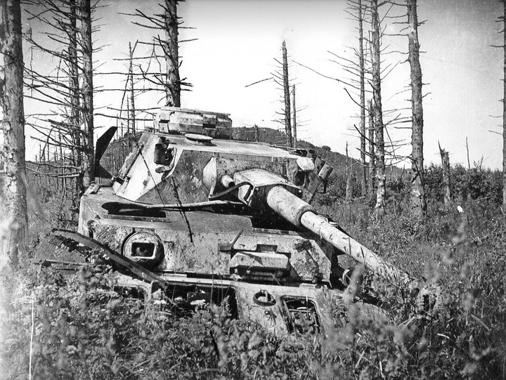 1949 photo of the Battle of Tannenberg Battle site with destroyed Panzer IV in foreground